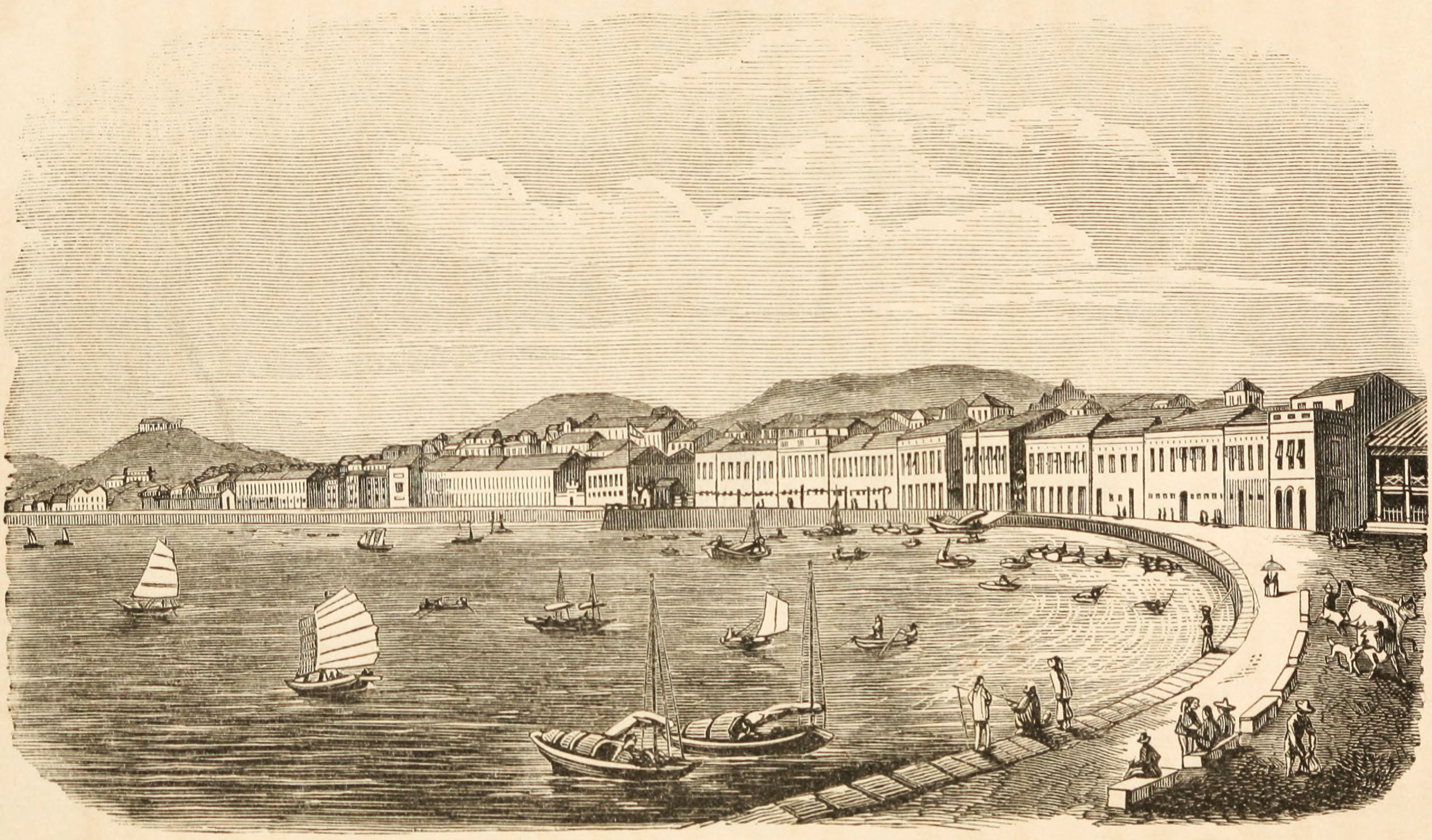 The pioneer of American missions in China : the life and labors of Elijah Coleman Bridgman by Bridgman, E. C. (Elijah Coleman), 1801-1861; Bridgman, Eliza Jane Gillett Text below the image: "Macao - Portuguese Settlement"